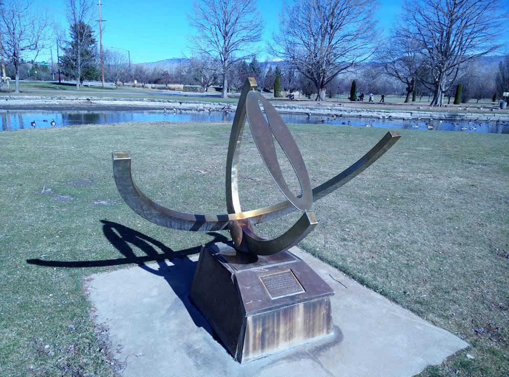 An analemmatic-equatorial sundial in Ann Morrison Park, Boise, Idaho.